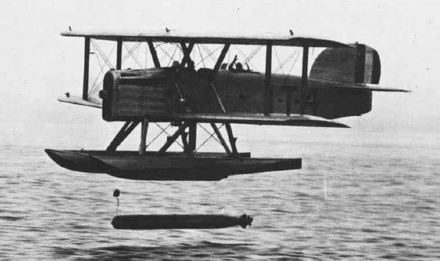 A U.S. Navy Douglas DT ("1-T-4") floatplane dropping a torpedo in the 1920s.